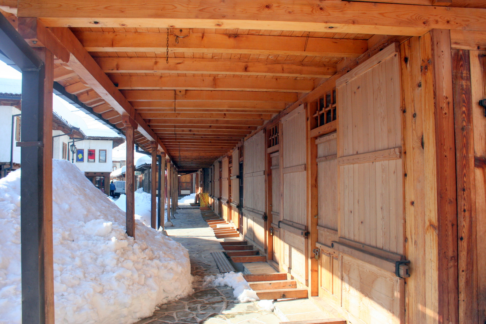 Closed Traditional Shops